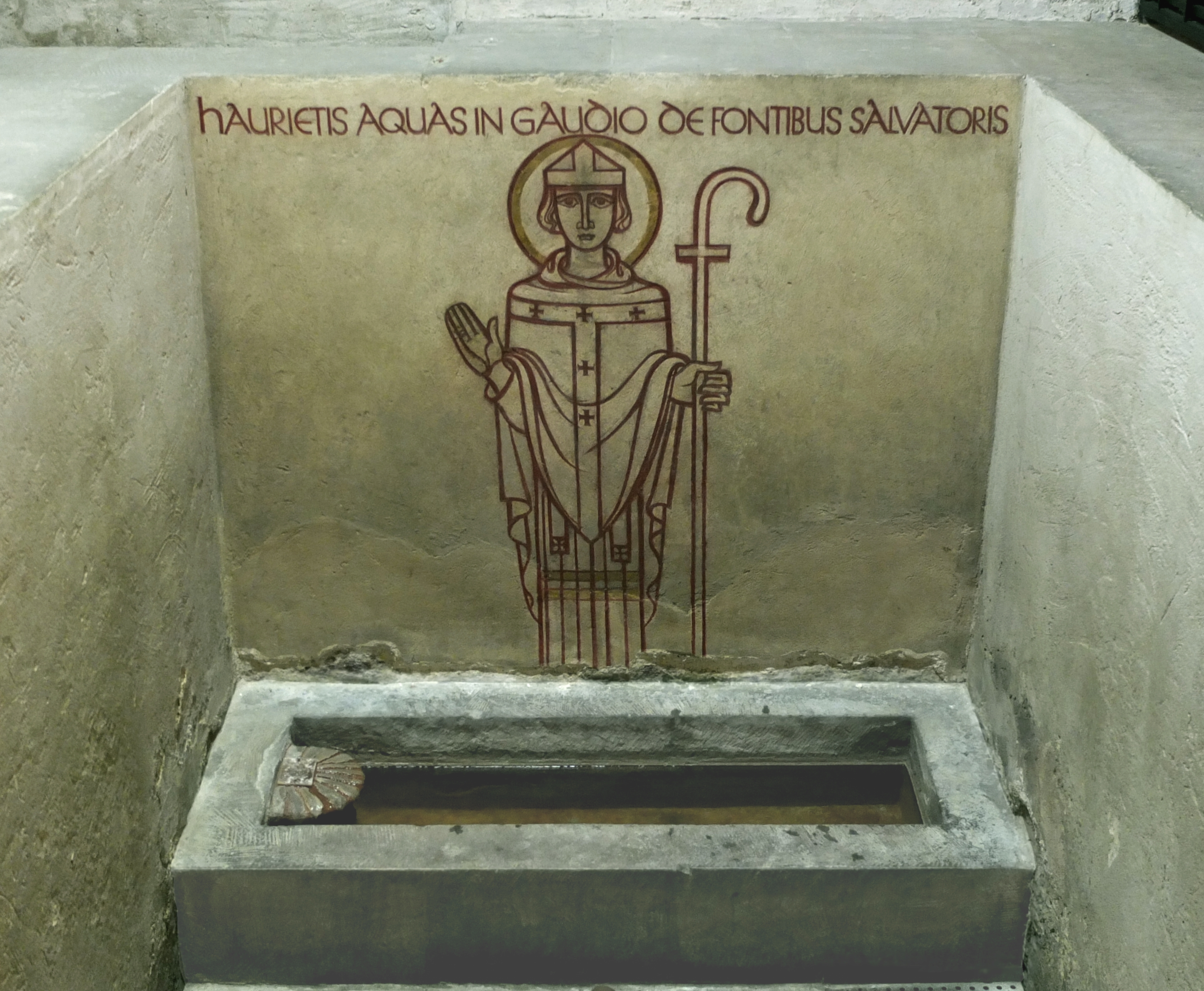 Willibrord-Well in the crypt of St.-Willibrord-Basilika in Echternach, Luxemburg. The well attracts pilgrims as it is believed to heal skin diseases.